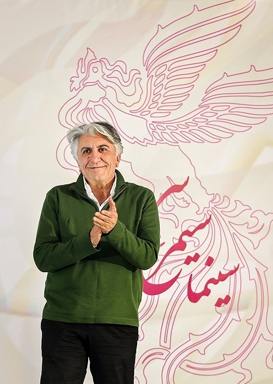 Reza Kiyanian